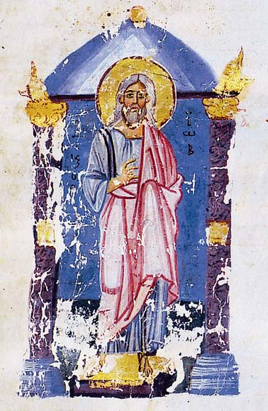 Book of Job in Illuminated Manuscripts.List of Byzantine Manuscripts with Cyclic Illustration.Venice.Biblioteca Nazionale Marciana